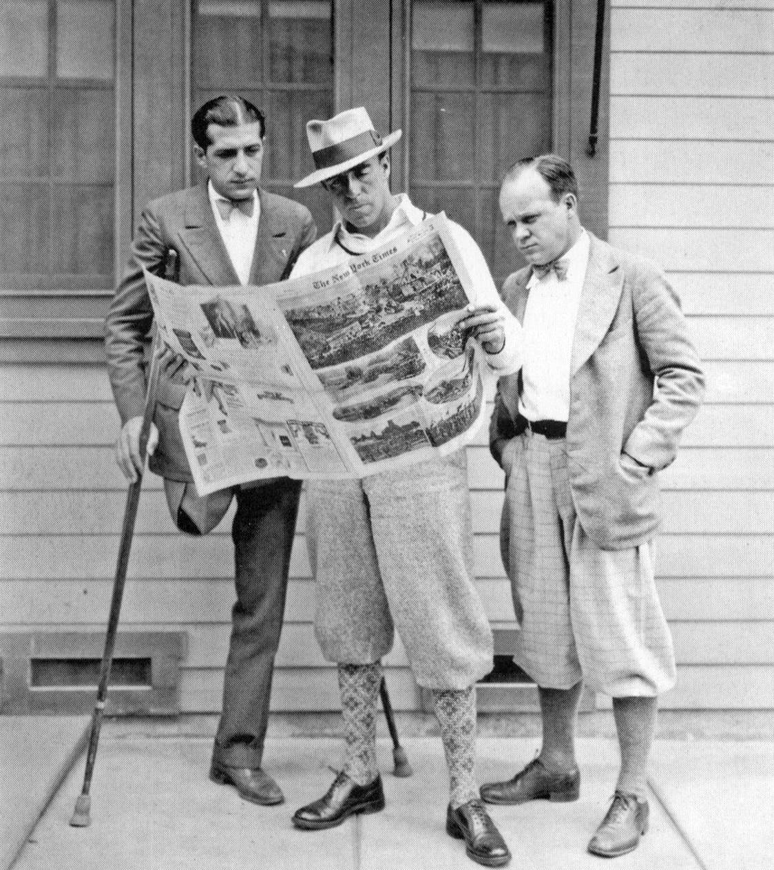 American writer Laurence Stallings (left) and American film director Raoul Walsh (center) read the New York Times. Stallings was wounded during the Battle of Belleau Wood in France during World War 1; his leg was amputated in Feb. 1922. Photo circa 1926.